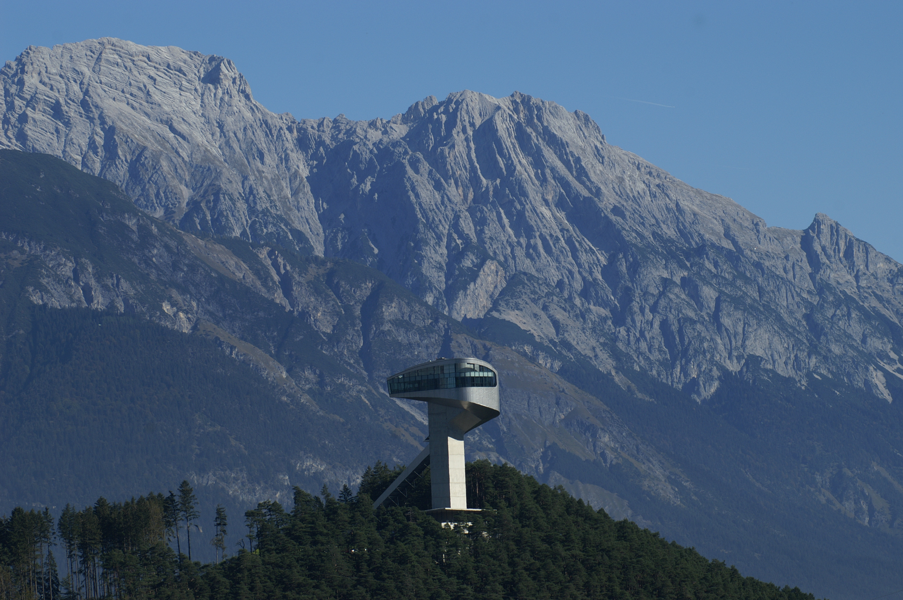 View of Bergisel ski jumping hill in Innsbruck (Austria) from the South